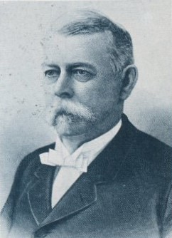 William H. Clagett (1938-1901), Montana Territorial Delegate